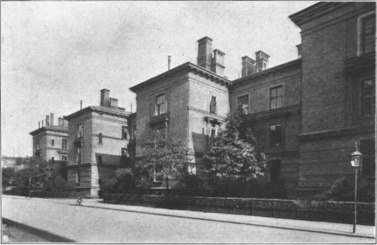 South wing of St. John's Hospital in Ryesgade, Copenhagen, Denmark. This wing was since demolished. Architect: Vilhelm Friederichsen.